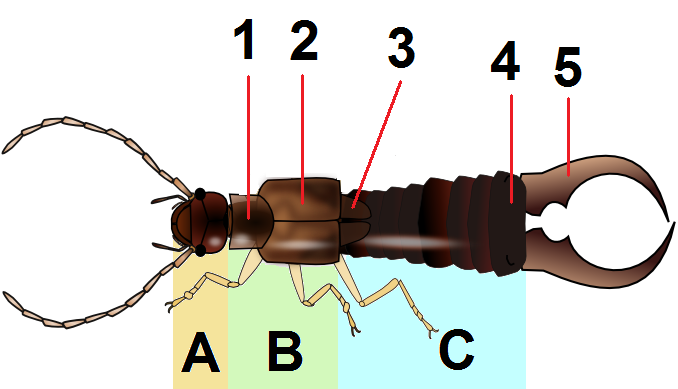 Earwig life cycle: 5 instars in svg going left to right (Forficula auricularia)